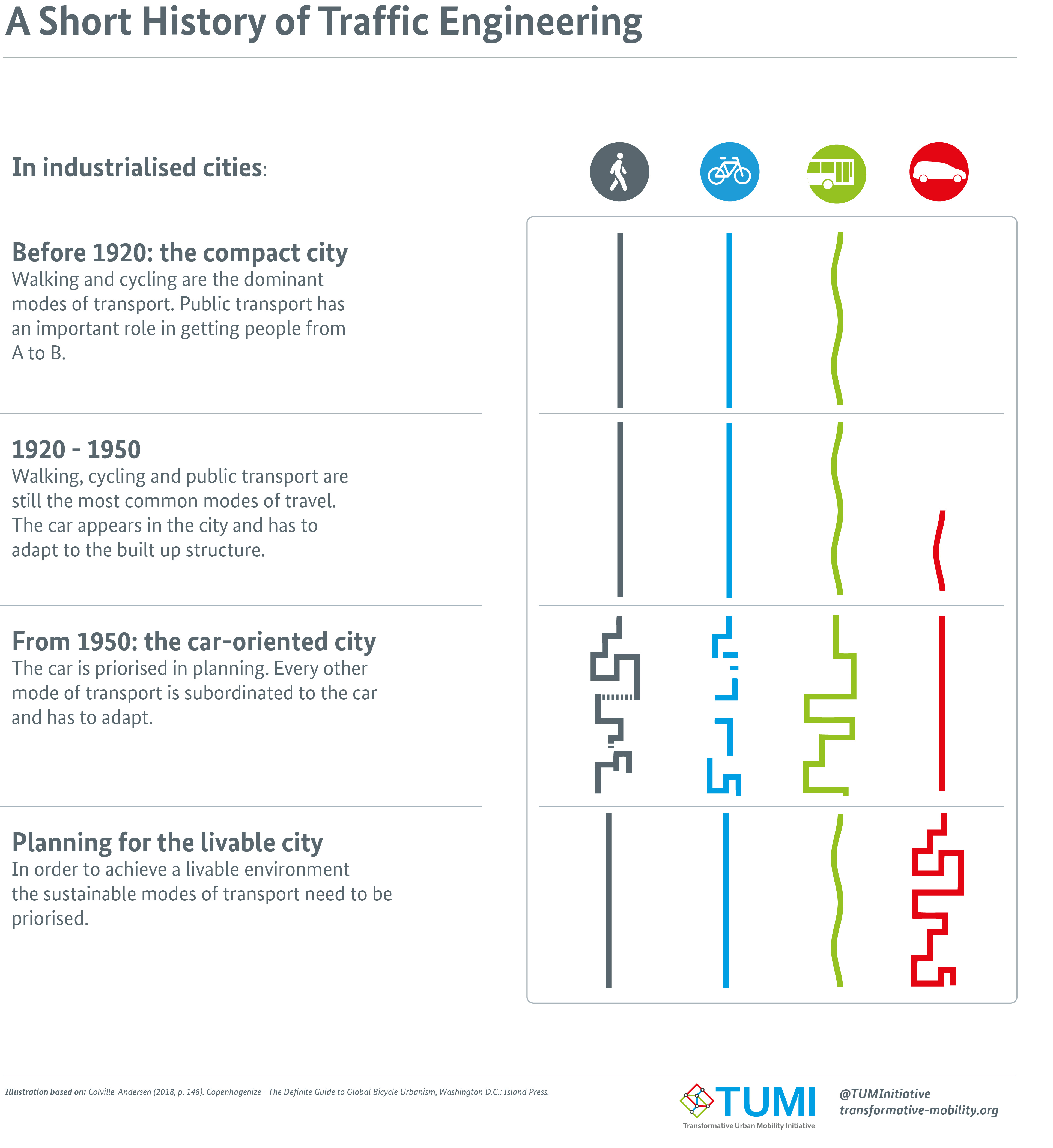 A Short History of Traffic Engineering in industrialised cities: walking, cycling, public transport; car-oriented; planning for the livable city; Illustration of the Transformative Urban Mobility Initiative (TUMI). Contact TUMI: . Created by and